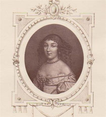 Portrait of Catherine Duchemin (1630–1698), French flower and fruit painter, after a portrait by Sébastien Bourdon